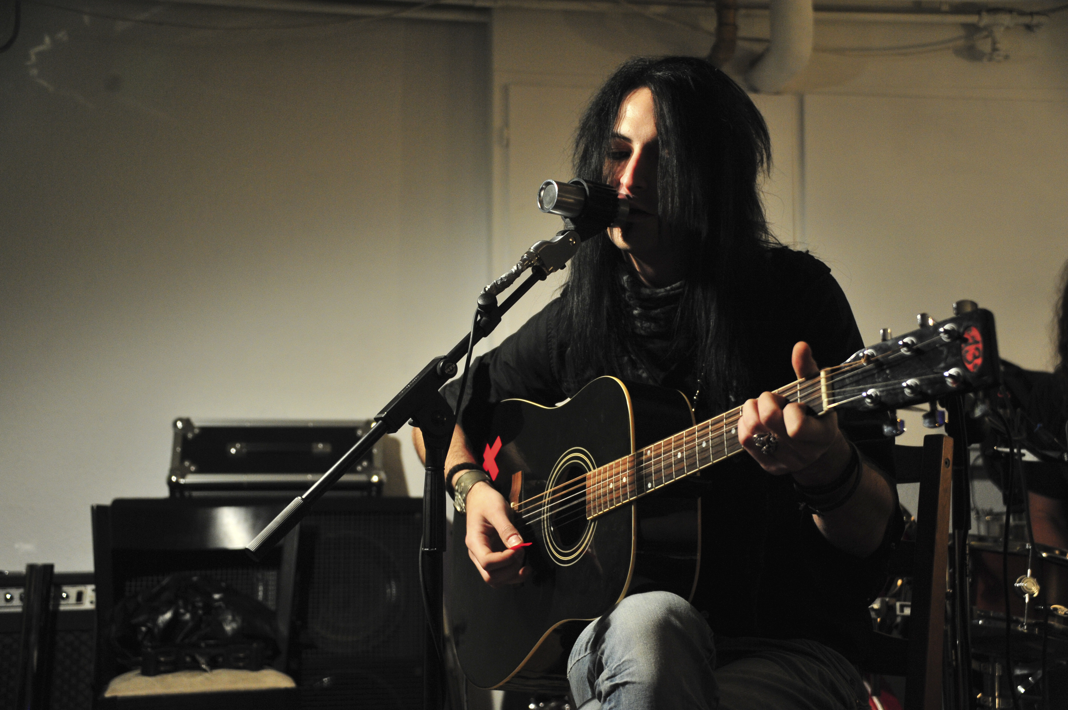 Bob Spring 2012 - Picture by Daisy Dice